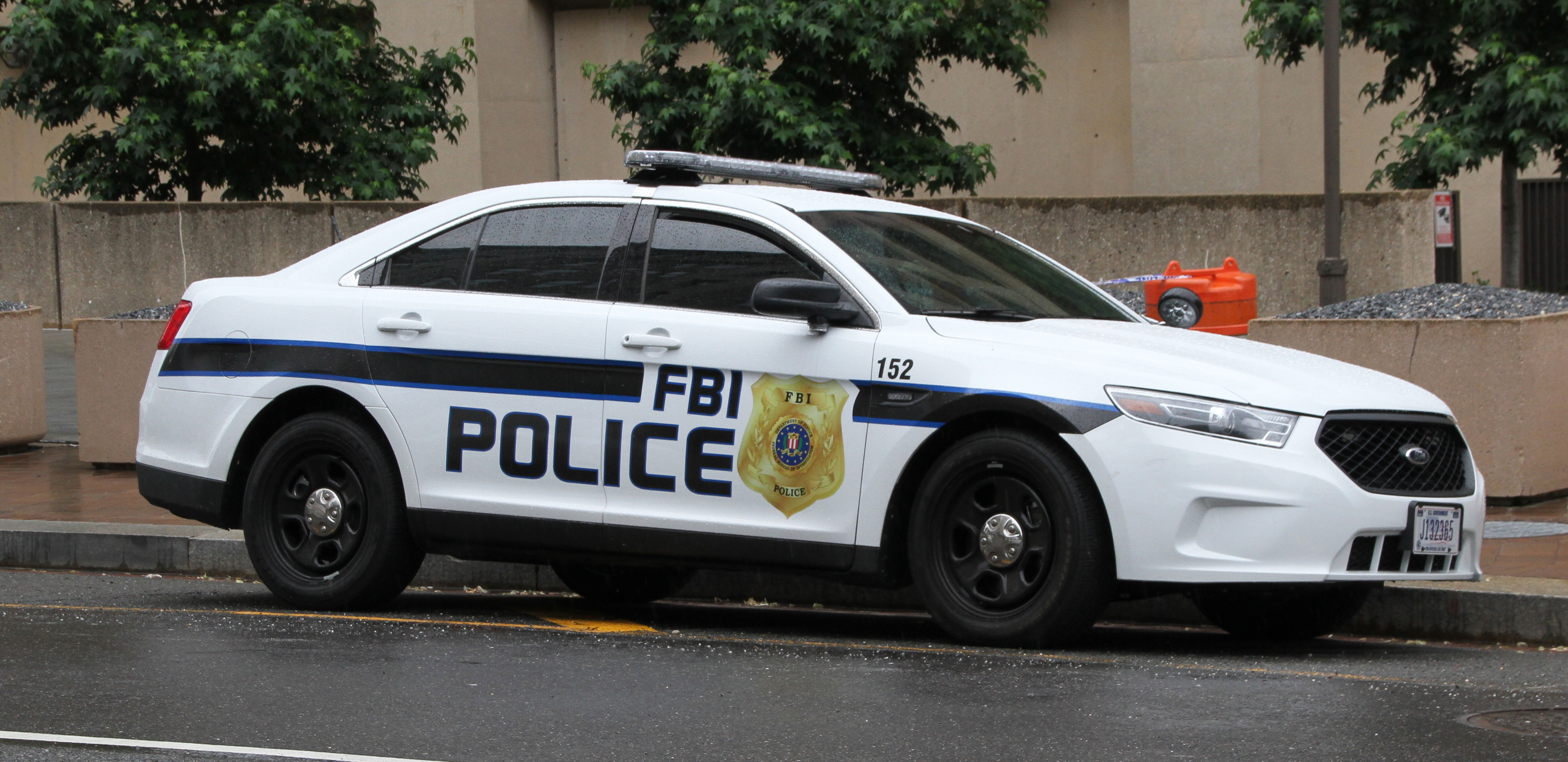 FBI Police Car